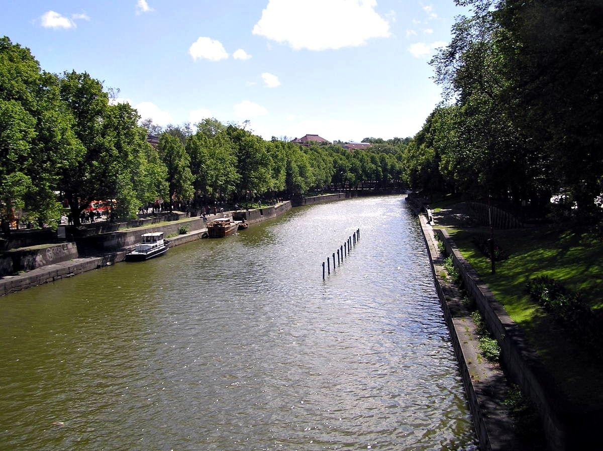 Aurajoki, Turku, Finland